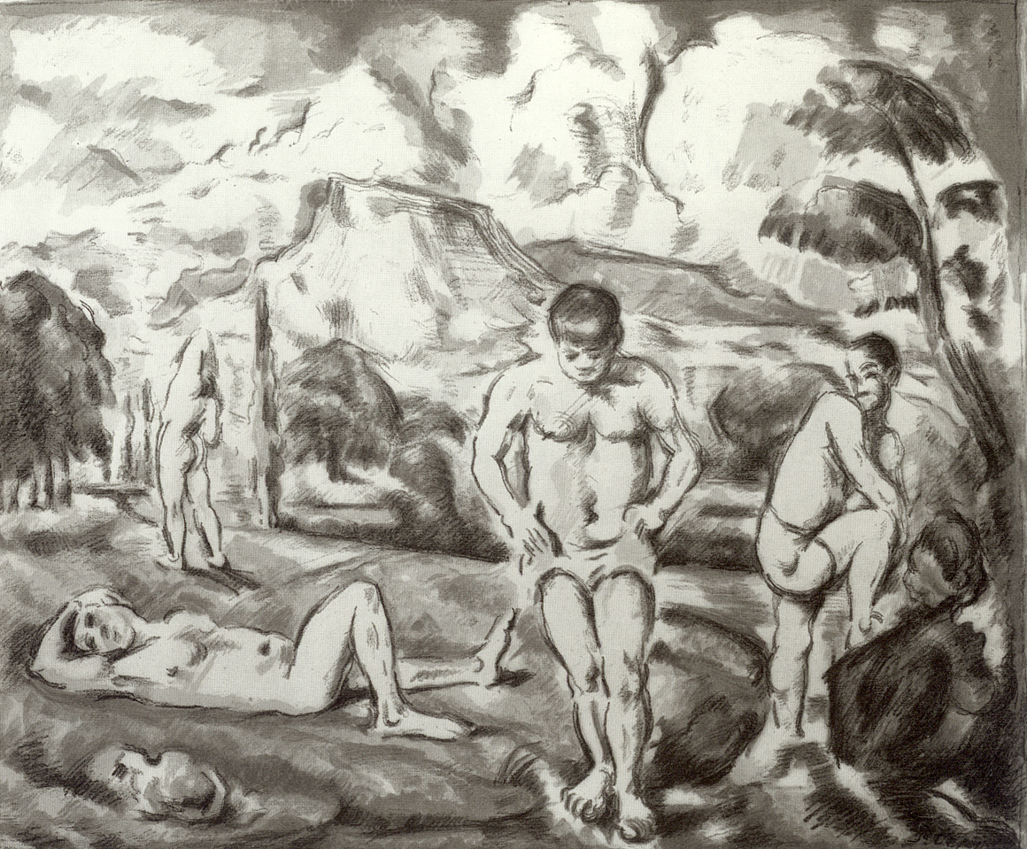 Paul Cézanne: The Bathers (Large Plate), undated, lithograph